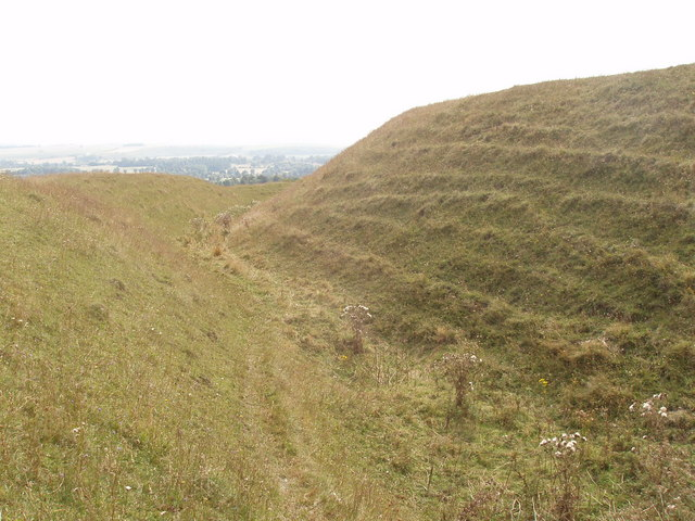 Iron age earth walls and ditch, Battlesbury hillfort. Fortifications at the eastern edge of Battlesbury Hill. The public Imber Range Perimeter Path runs along the top of the earth wall.